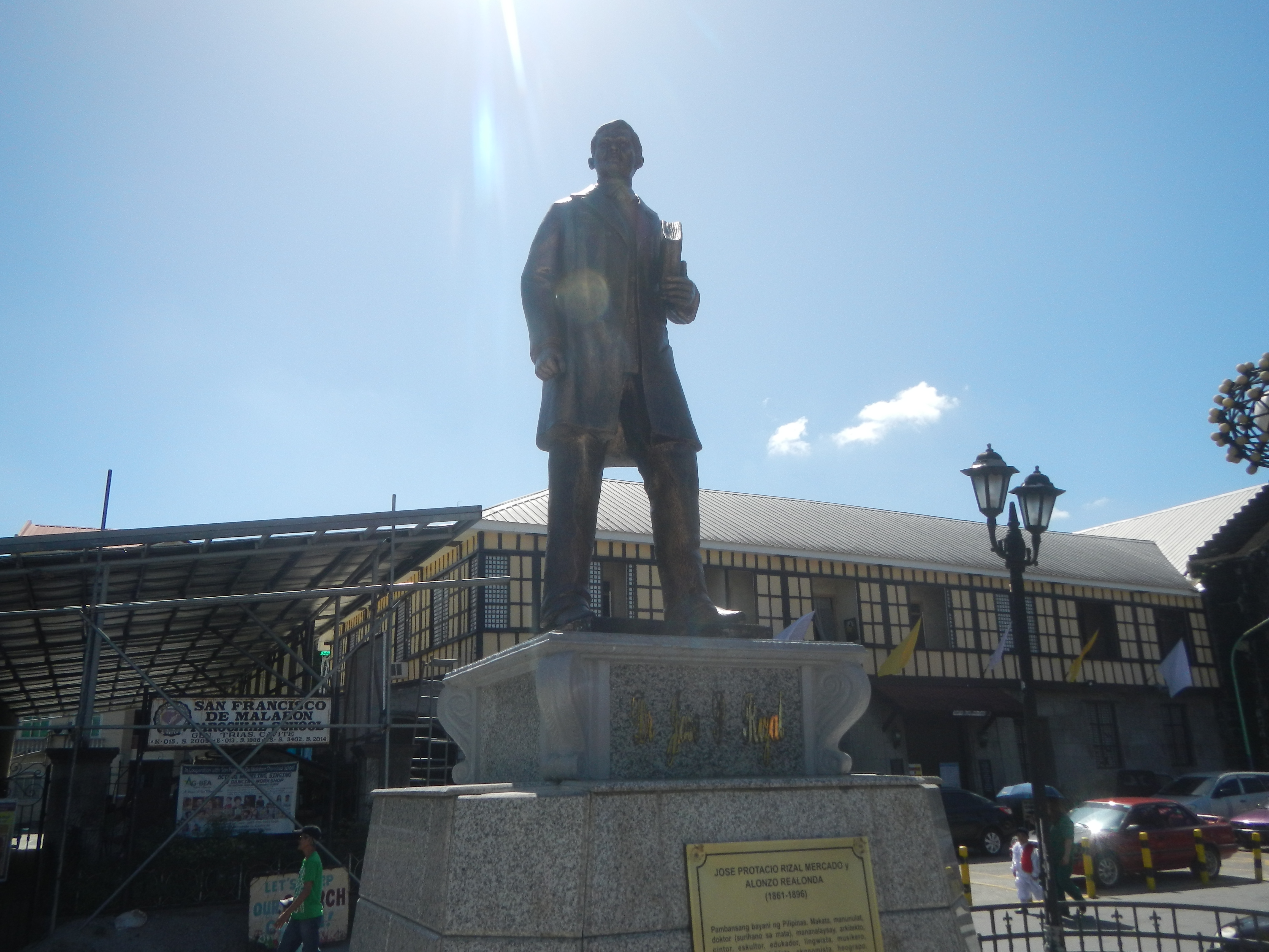 General Artemio Ricarte Memorial School (General Trias, Cavite) General Trias (R. A. 2889) monument, Cavite General Trias City Hall - Plaza Rizal, Cavite beside Pinagtipunan, Prinza, Governor Ferrer & 1896th (Poblacion), General Trias, Cavite Barangay Pinagtipunan 14°22'20"N 120°52'44"E Prinza 14°22'46"N 120°52'45"E Governor Ferrer 14°23'30"N 120°52'49"E 1896th (Poblacion), General Trias, Cavite 14°23'2"N 120°52'44"E Arnaldo 14°20'22"N 120°54'28"E Vibora 14°23'4"N 120°53'0"E Bagumbayan, General Trias, Cavite 14°23'12"N 120°52'50"E Sampalucan 14.3865, 120.8791 General Trias, Cavite (Note: Judge Florentino Floro, the owner, to repeat, Donor Florentino Floro of all these photos hereby donate gratuitously, freely and unconditionally all these photos to and for Wikimedia Commons, exclusively, for public use of the public domain, and again without any condition whatsoever).